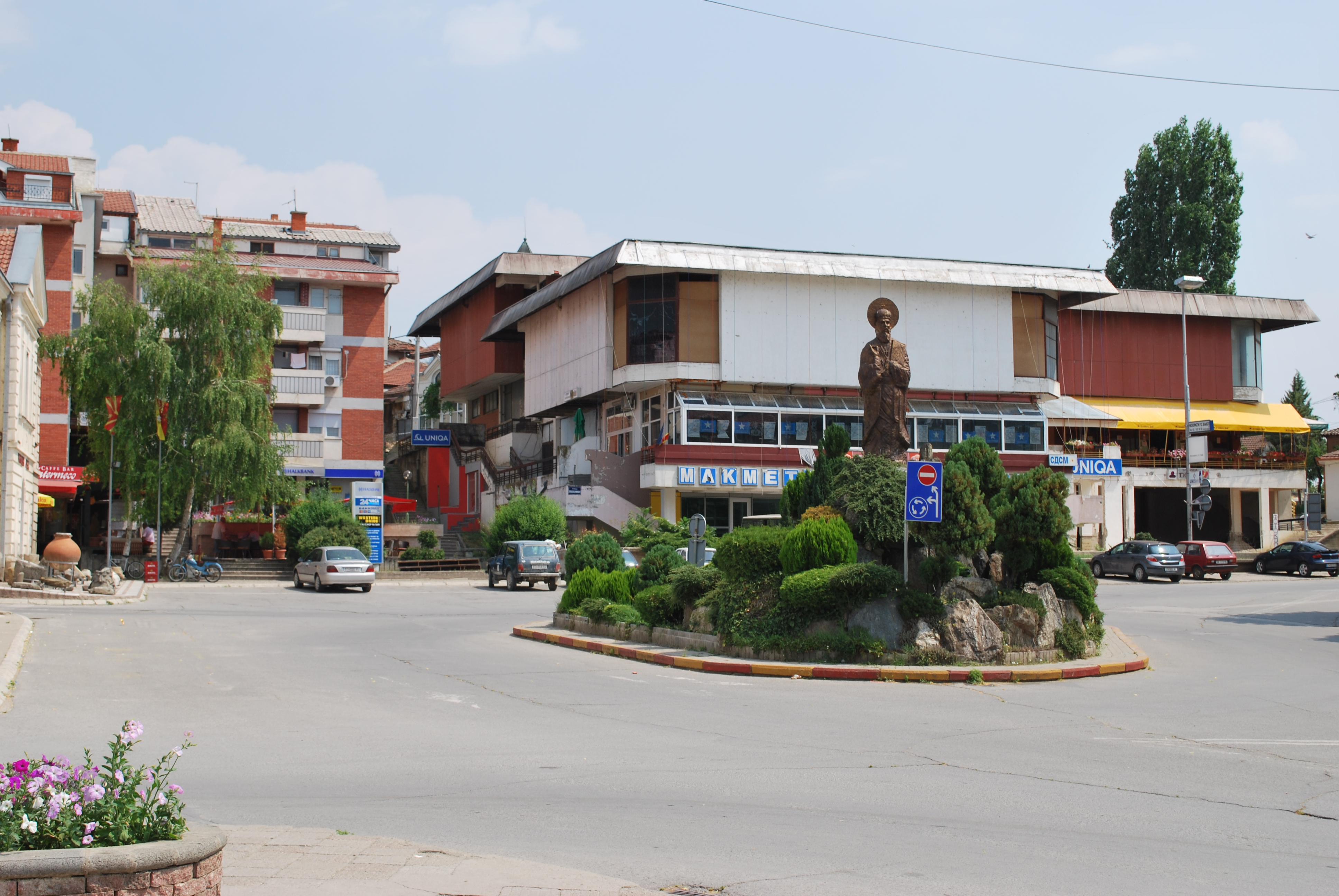 ISveti Nikole, Macedonia